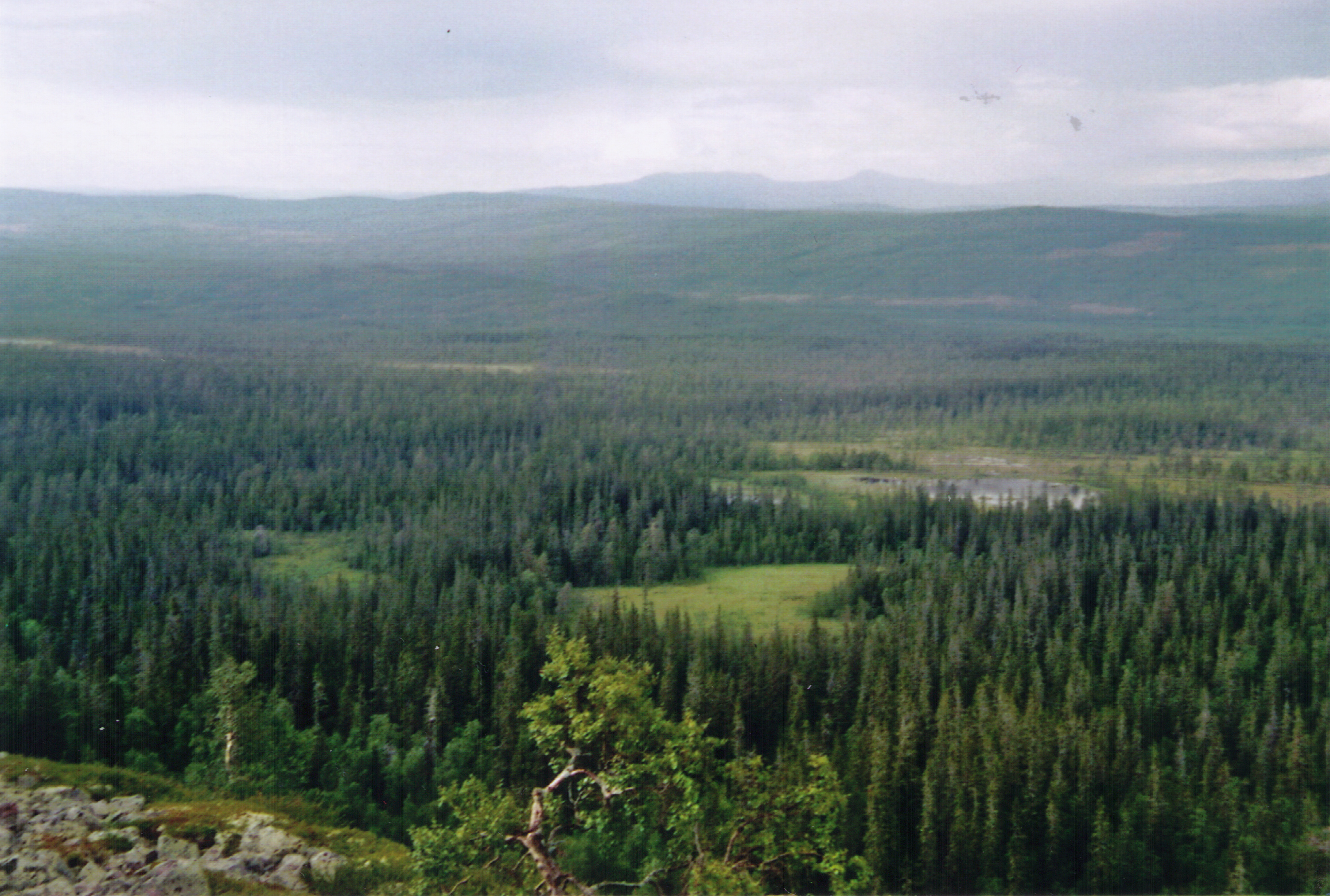 Fulufjäll in Sweden